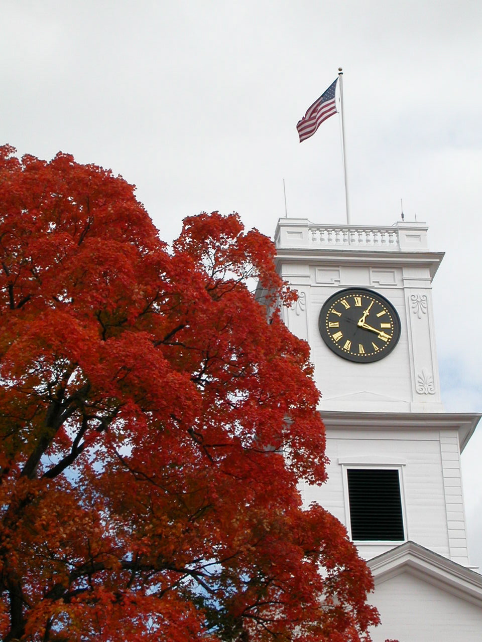 Johnson Chapel at Amherst College in fall 2004